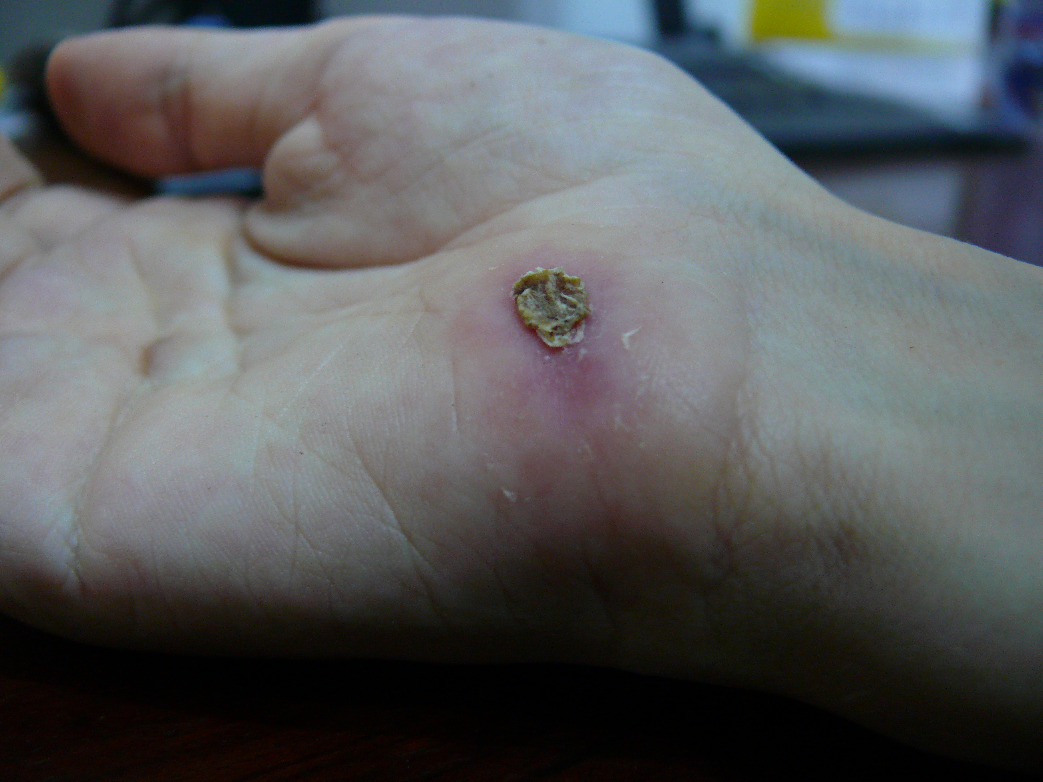 Wound on palm of hand 19 days after falling off a bike onto concrete. Previous photos: Day 1: Image:Wound on palm of hand.jpg Day 2: Image:Wound on palm of hand - day 2.jpg Day 3: Image:Wound on palm of hand - day 3.jpg Day 4: Image:Wound on palm of hand - day 4.jpg Day 5: Image:Wound on palm of hand - day 5.jpg Day 6: Image:Wound on palm of hand - day 6.jpg Day 7: Image:Wound on palm of hand - day 7.jpg Day 8: Image:Wound on palm of hand - day 8.jpg Day 9: Image:Wound on palm of hand - day 9.jpg Day 10: Image:Wound on palm of hand - day 10.jpg Day 11: Image:Wound on palm of hand - day 11.jpg Day 12: Image:Wound on palm of hand - day 12.jpg Day 13: Image:Wound on palm of hand - day 13.jpg Day 14: Image:Wound on palm of hand - day 14.jpg Day 15: Image:Wound on palm of hand - day 15.jpg Day 16: Image:Wound on palm of hand - day 16.jpg Day 17: Image:Wound on palm of hand - day 17.jpg Day 18: Image:Wound on palm of hand - day 18.jpg Following photos: Day 20: Image:Wound on palm of hand - day 20.jpg